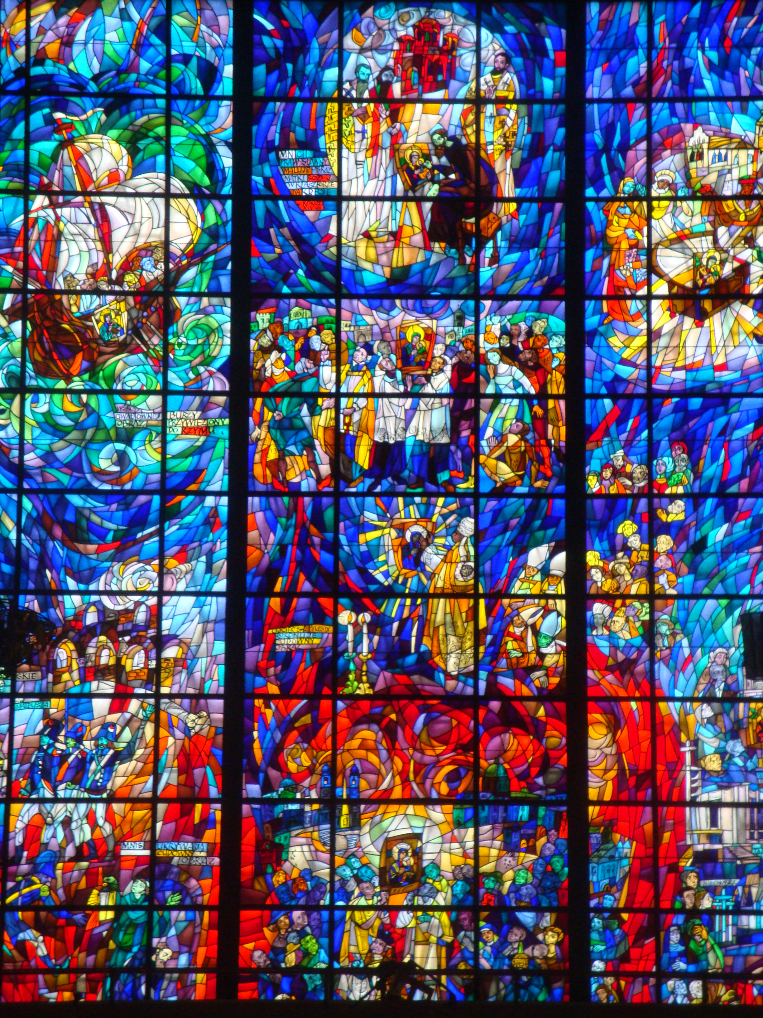 Kościół Matki Bożej Nieustającej Pomocy w Tarnobrzegu-Serbinowie